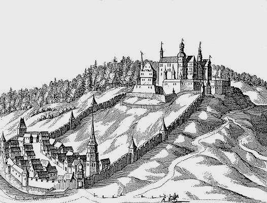 Landstuhl, view by Matthäus Merian